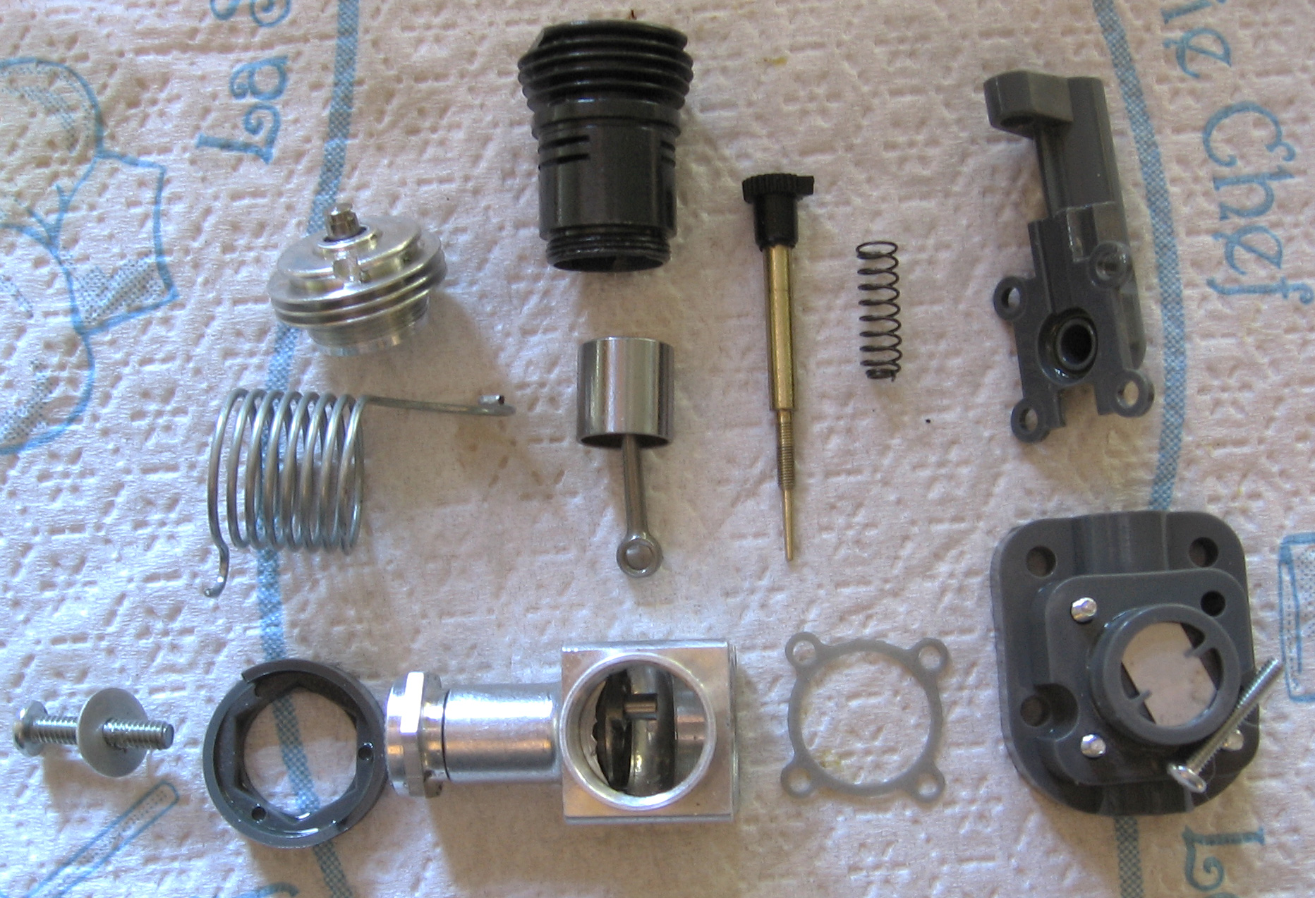 Cox Sure Start 0.049 cubic inch reed valve model engine, recently purchased and never run August 2007.